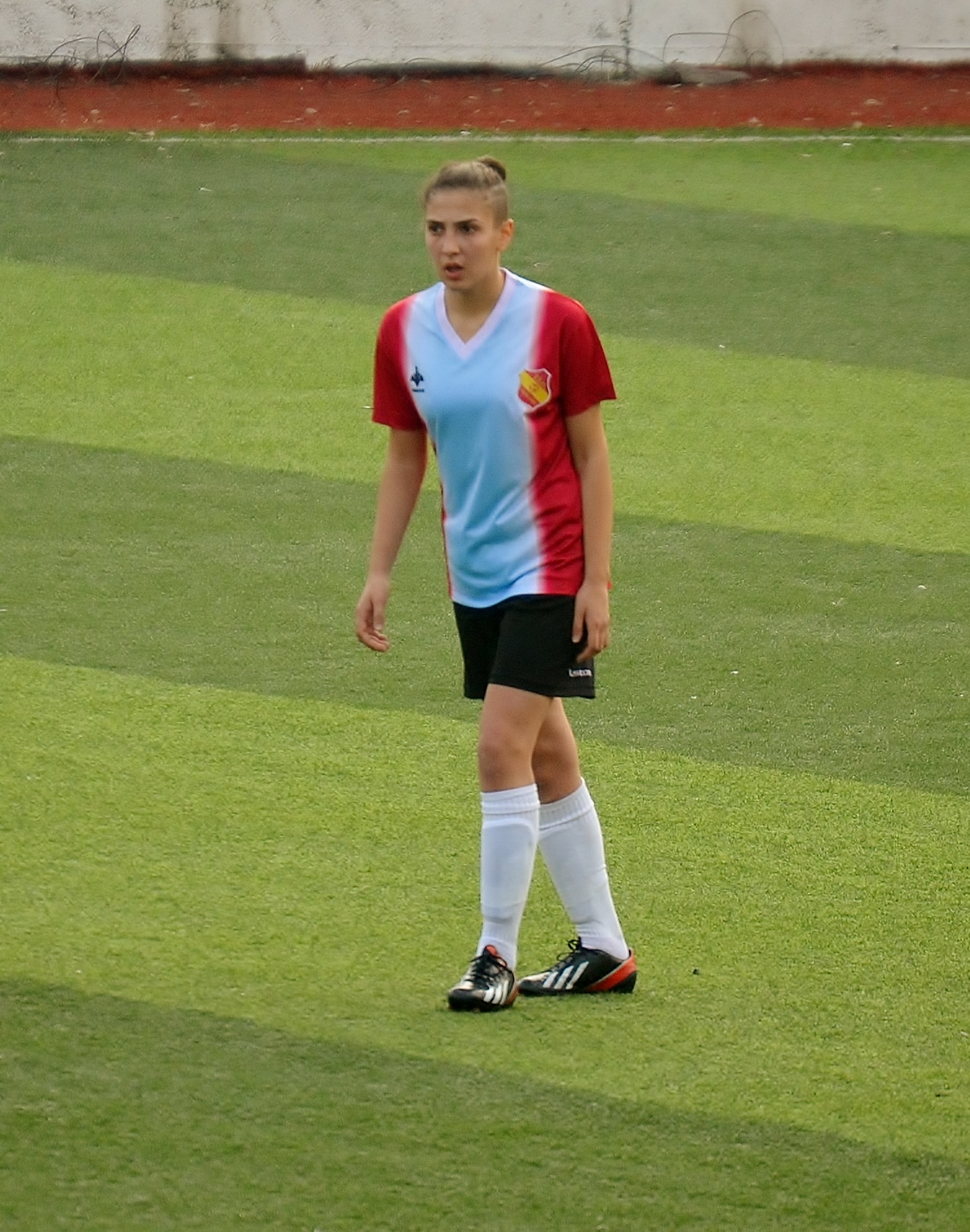 Aybüke Arslan playing for Trabzon İdmanocağı in the 2014-15 season.